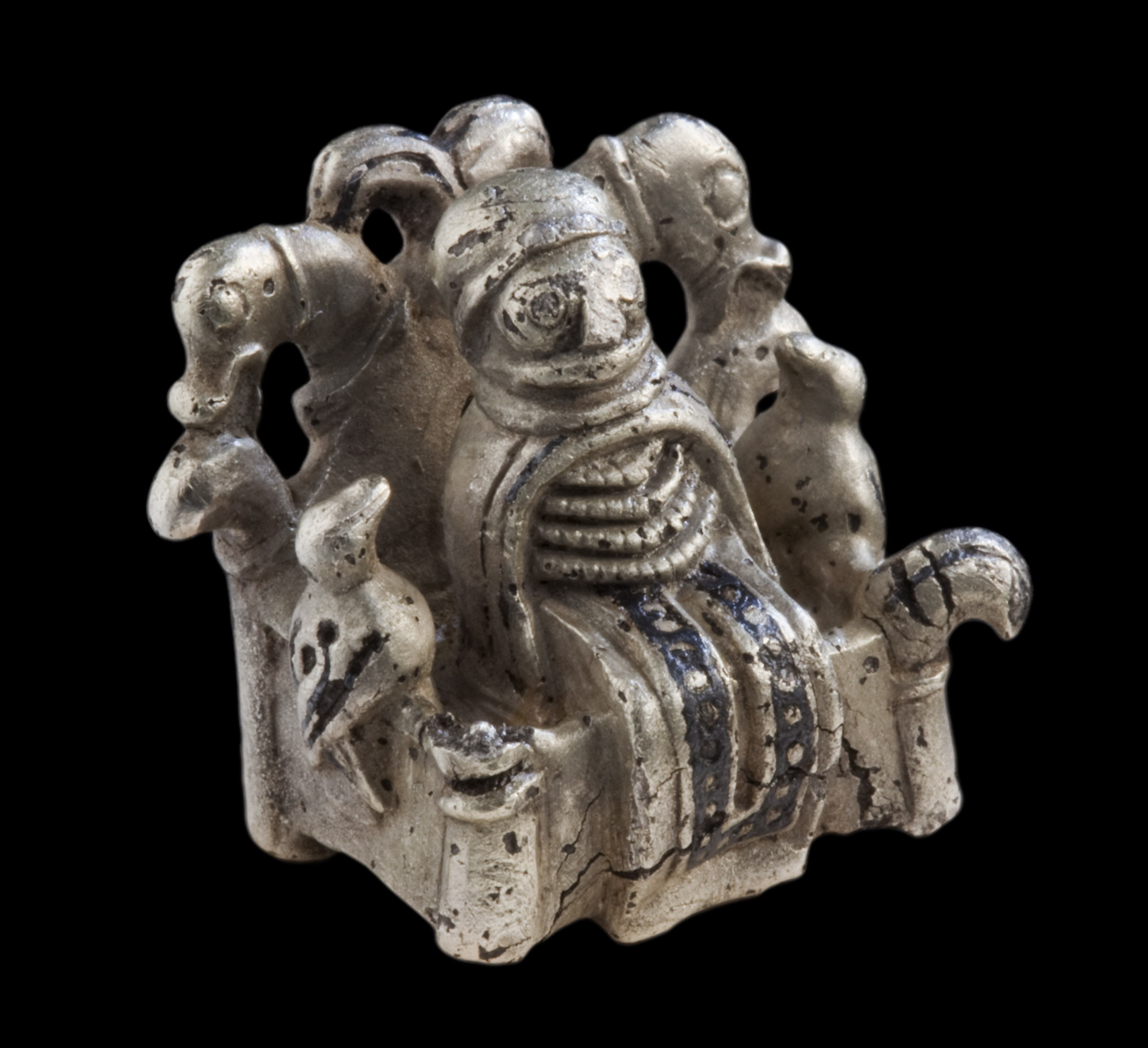 Odin from Lejre on his throne photo Ole Malling & Roskilde Museum. Object from the special exhibition VIKING (National Museum of Denmark - June 22nd - Nov.17th. 2013.